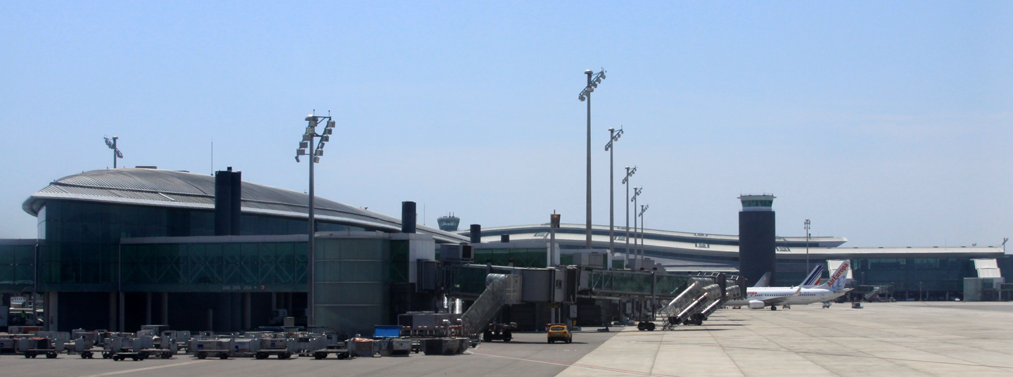 Exterior of Barcelona T1 terminal from the tarmac